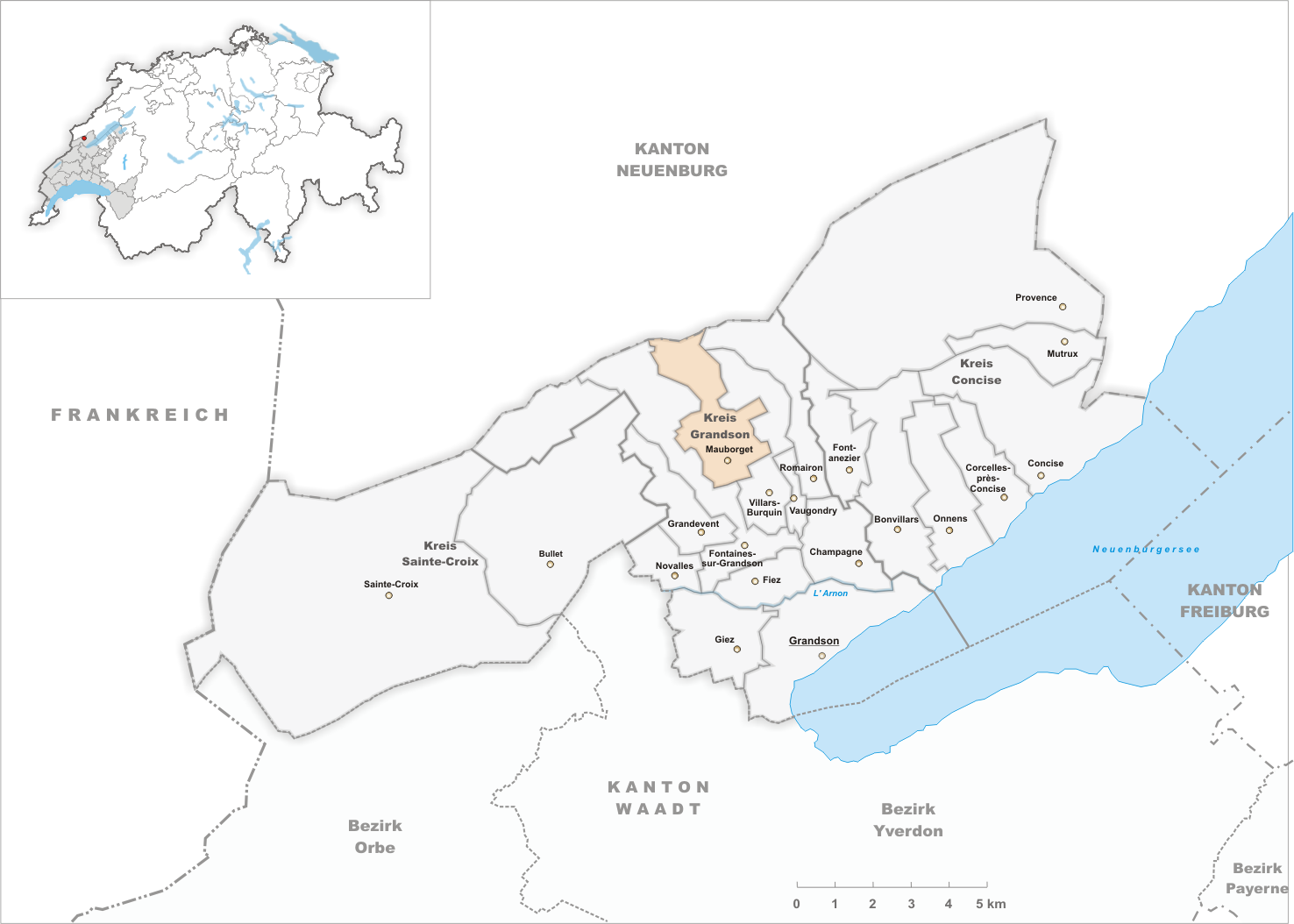 Municipality Mauborget